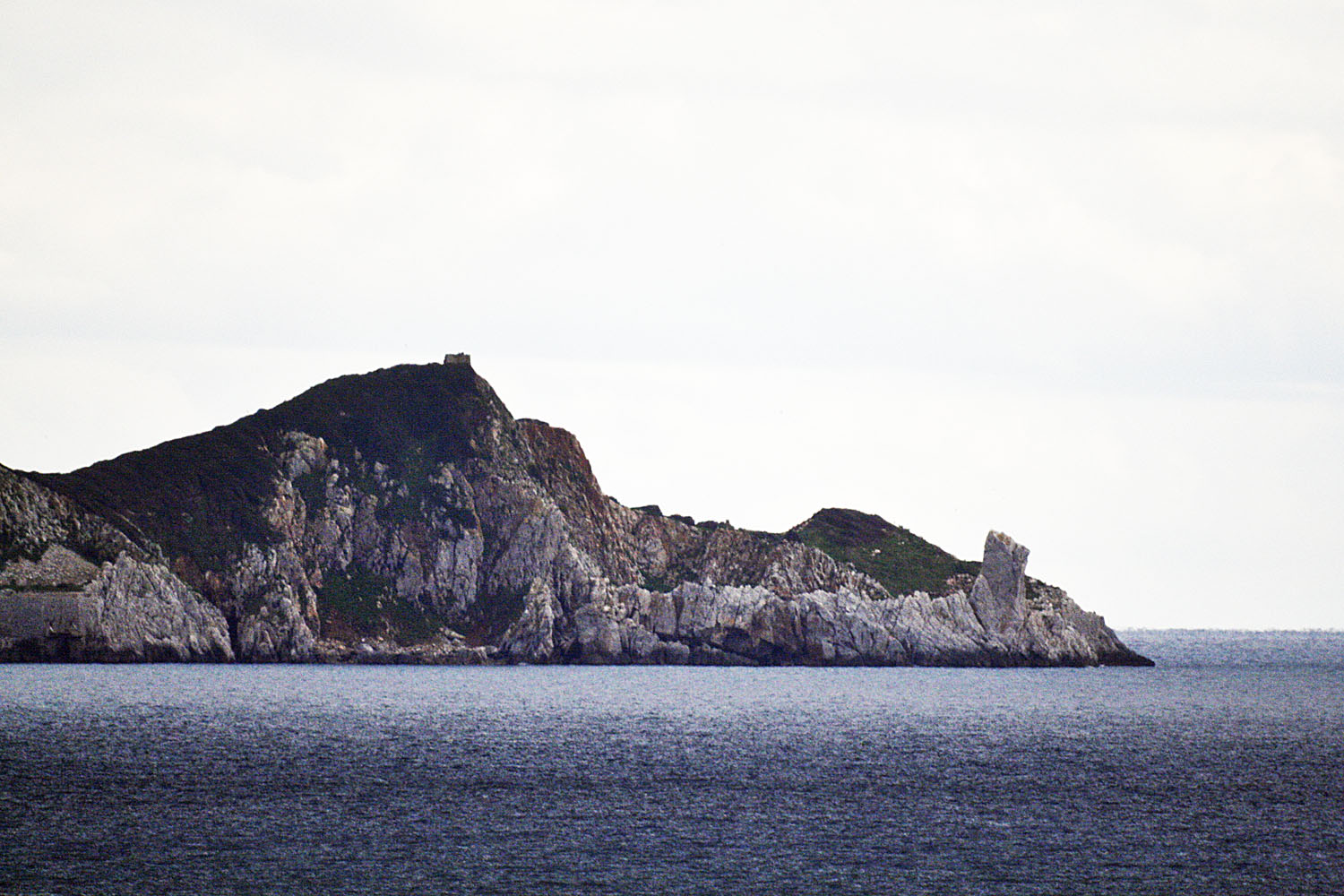 Cerboli, islet in Piombino channel (Thyrrhenian Sea). Close-up of western end.